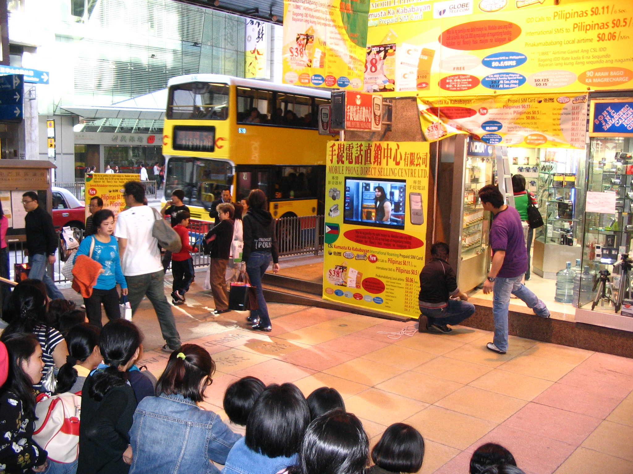 Photo of World Wide Lane